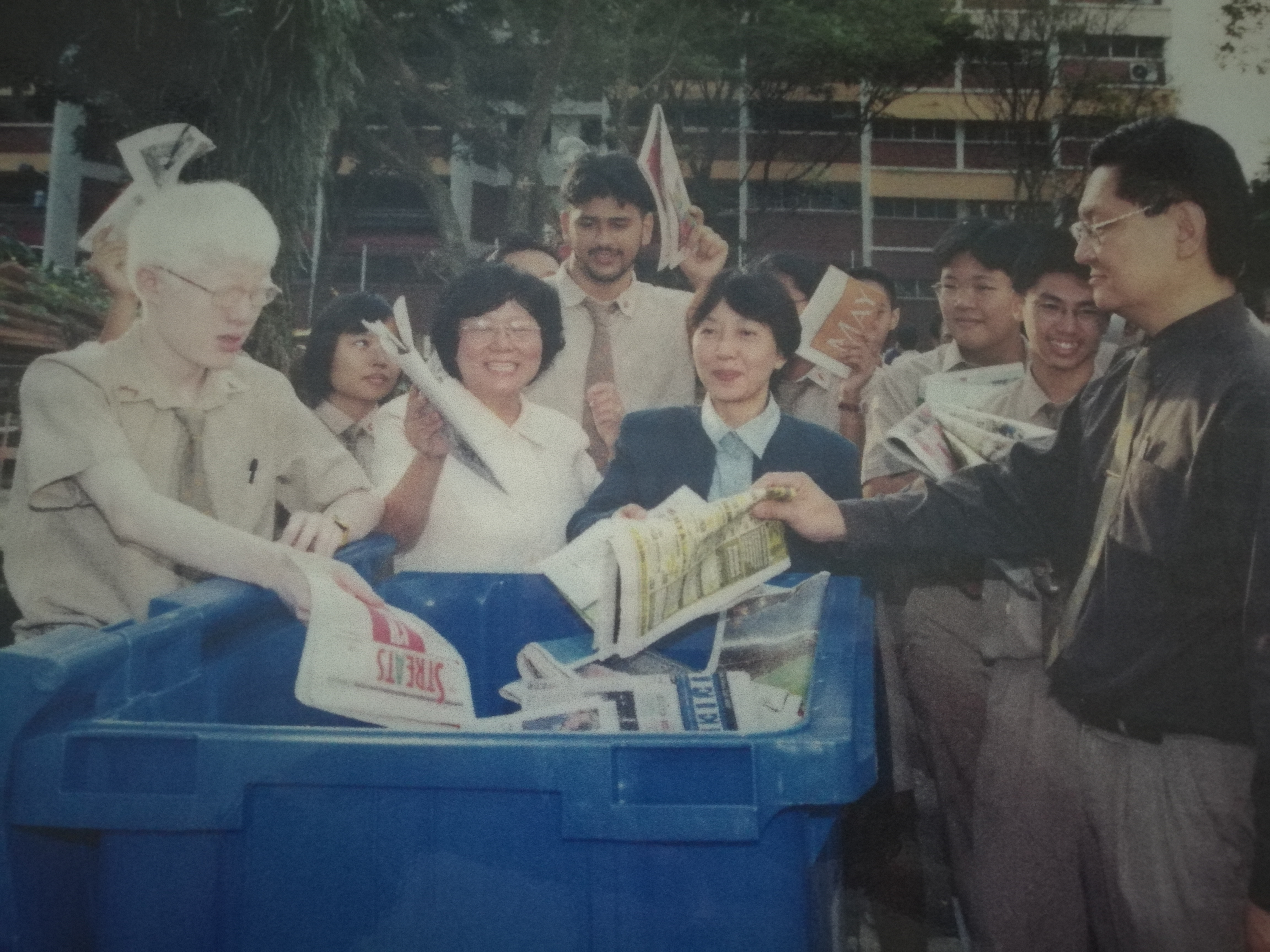 Nanyang Junior College students launching their college recycling and community service drive on 9 May 1999, featuring Lee Yipeng, the son of Lee Hsien Loong. Film photo digitised on 25 July 2017.